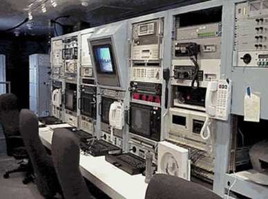 NASA Wallops Flight Facility Mobile Telemetry System